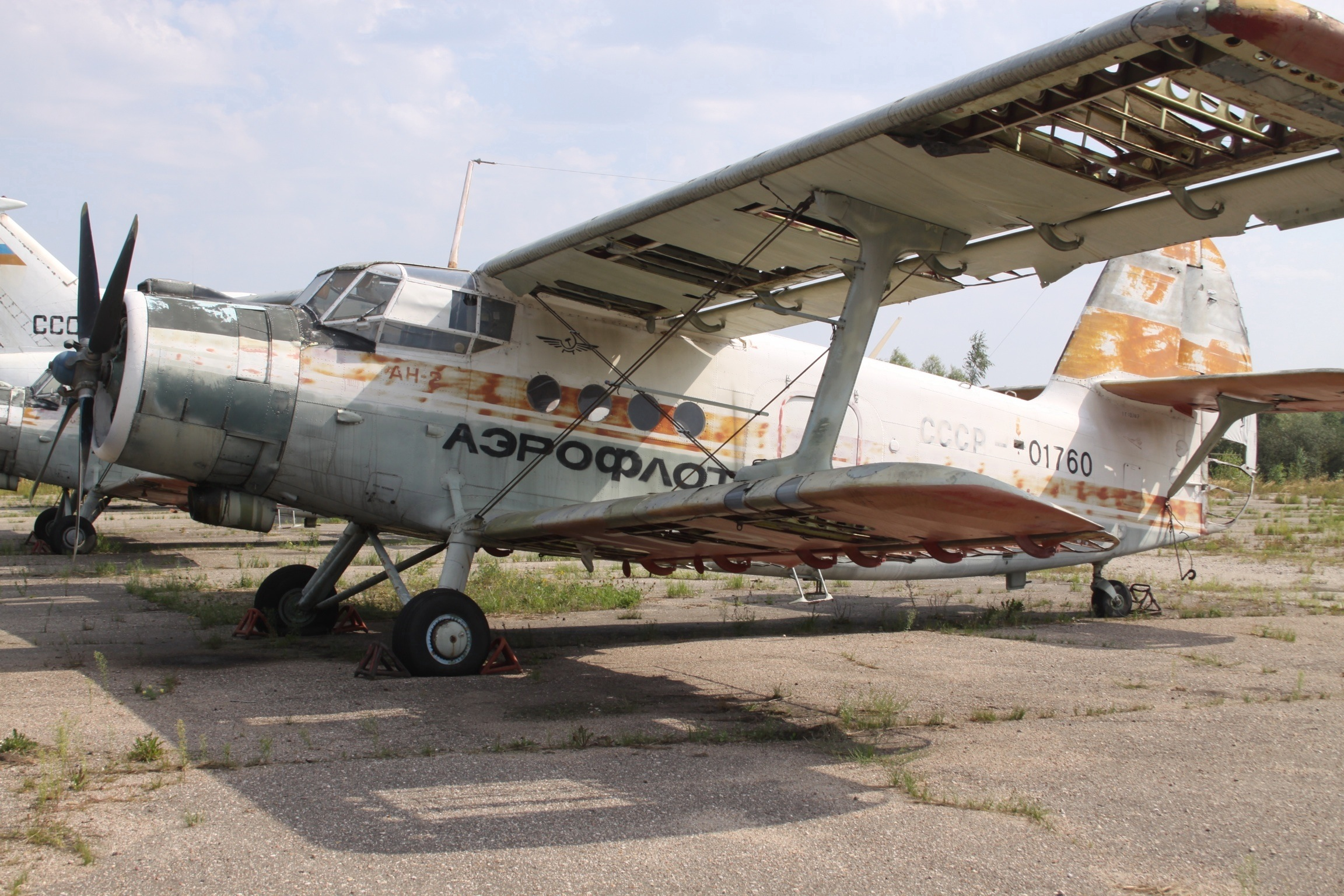 At Yegoryevsk Technical School